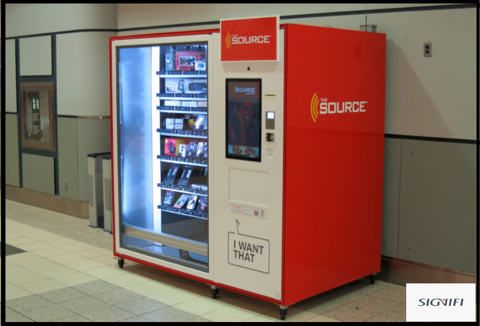 The Source Automated Retail Kiosk Dispensing Electronics at the International Airport.